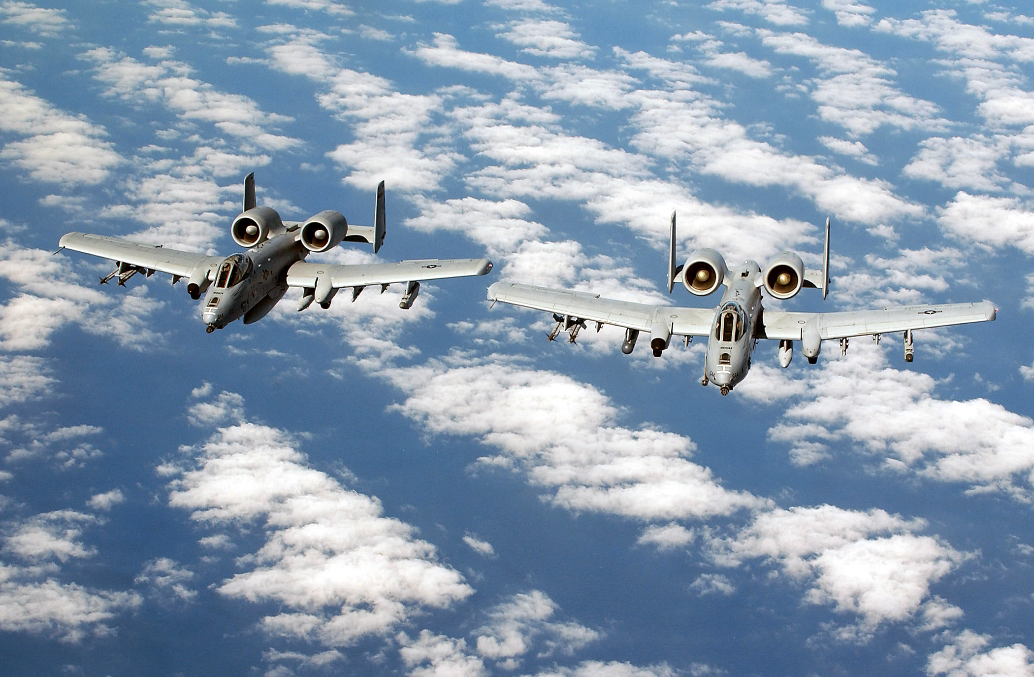 A-10 Thunderbolt II Pair of "hawgs" OVER THE MEDITERRANEAN SEA -- A pair of A-10 Thunderbolt IIs from the 104th Fighter Wing, Barnes Municipal Airport, Westfield Mass., Massachusetts Air National Guard, fly over the Mediterranean Sea enroute to a forward operating base.